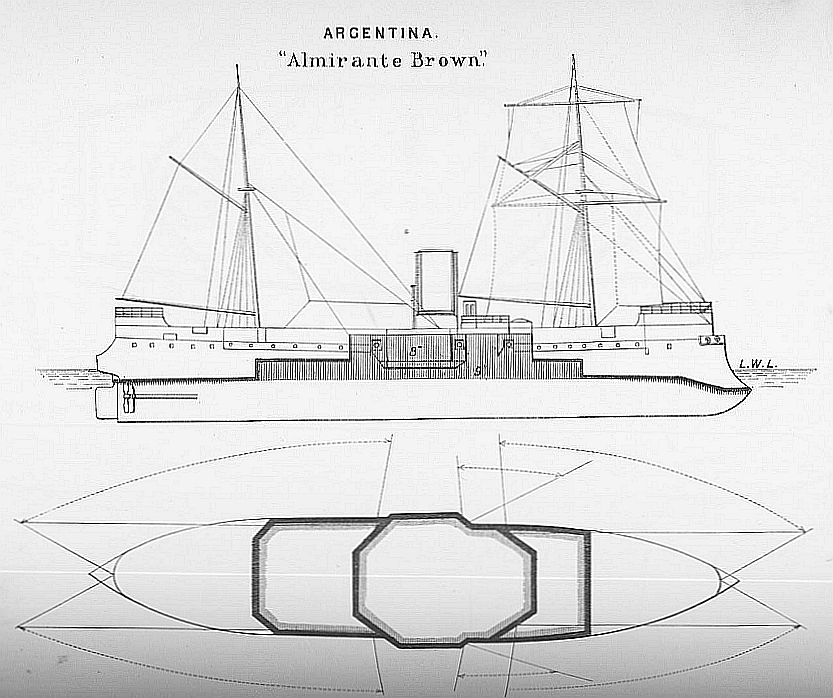 Line drawing of the Argentine ironclad Almirante Brown.